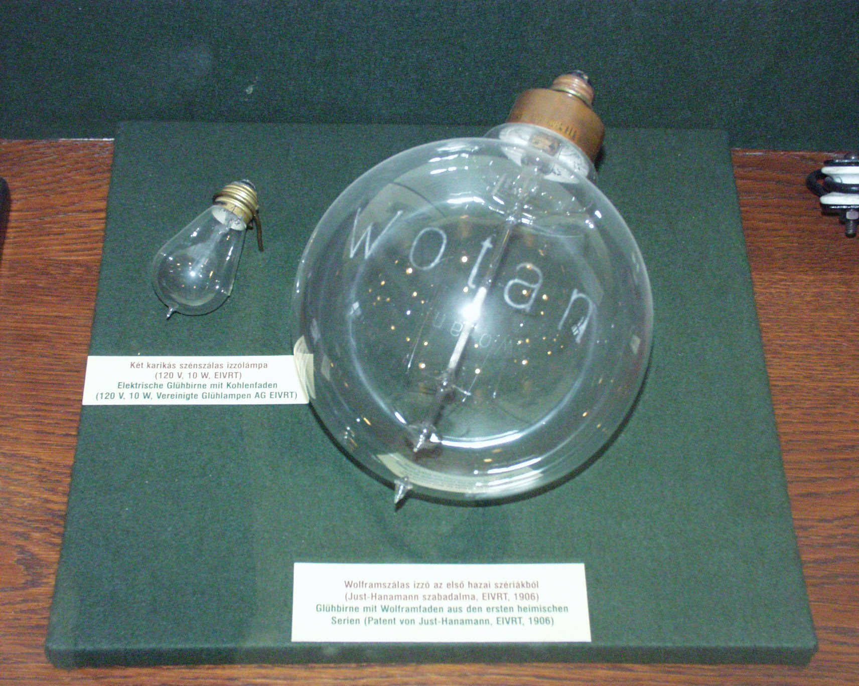 Incandescent light bulbs with carbon fibers (left) and tungsten wire (right, EIVIRT, 1906., based on the patent from Aleksander Just and Franjo Hanaman) on the exhibition of the Hungarian Museum of Science, Technology and Transport in Széchenyi István Memorial Museum, Nagycenk.